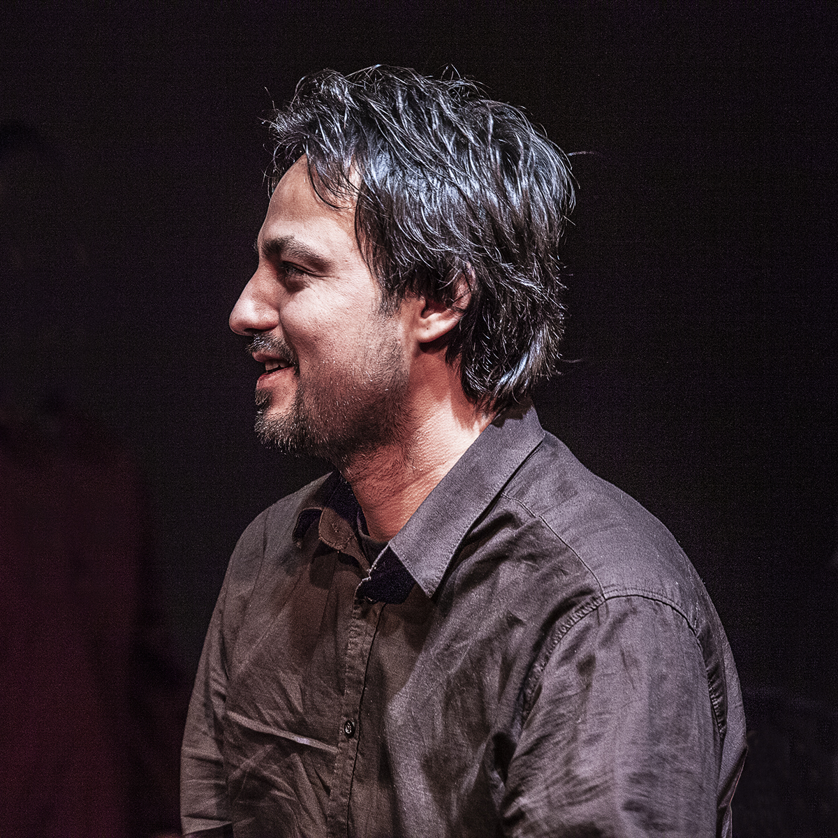 turkisch Musician and composer Güran Balkan at Altes Pfandhaus, Köln/Cologne